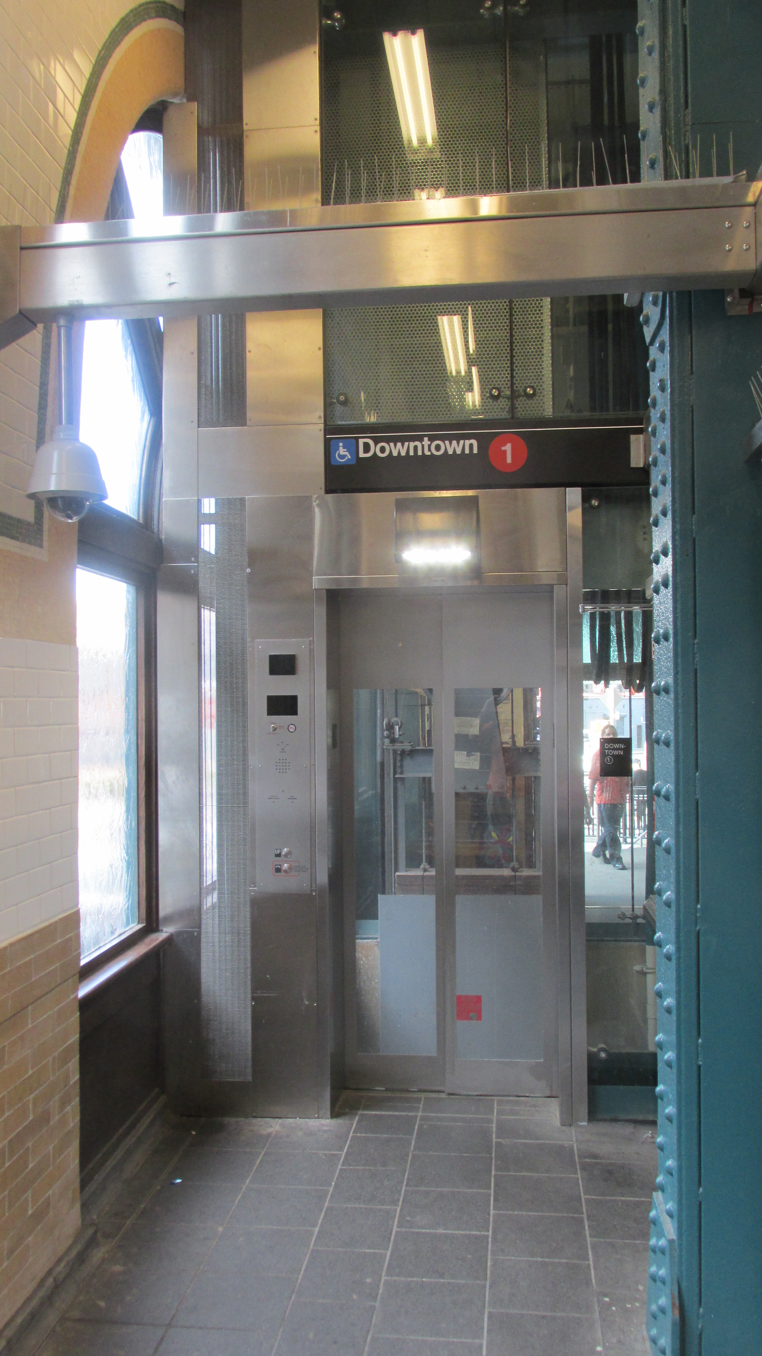 Dyckman St no 1 station 2